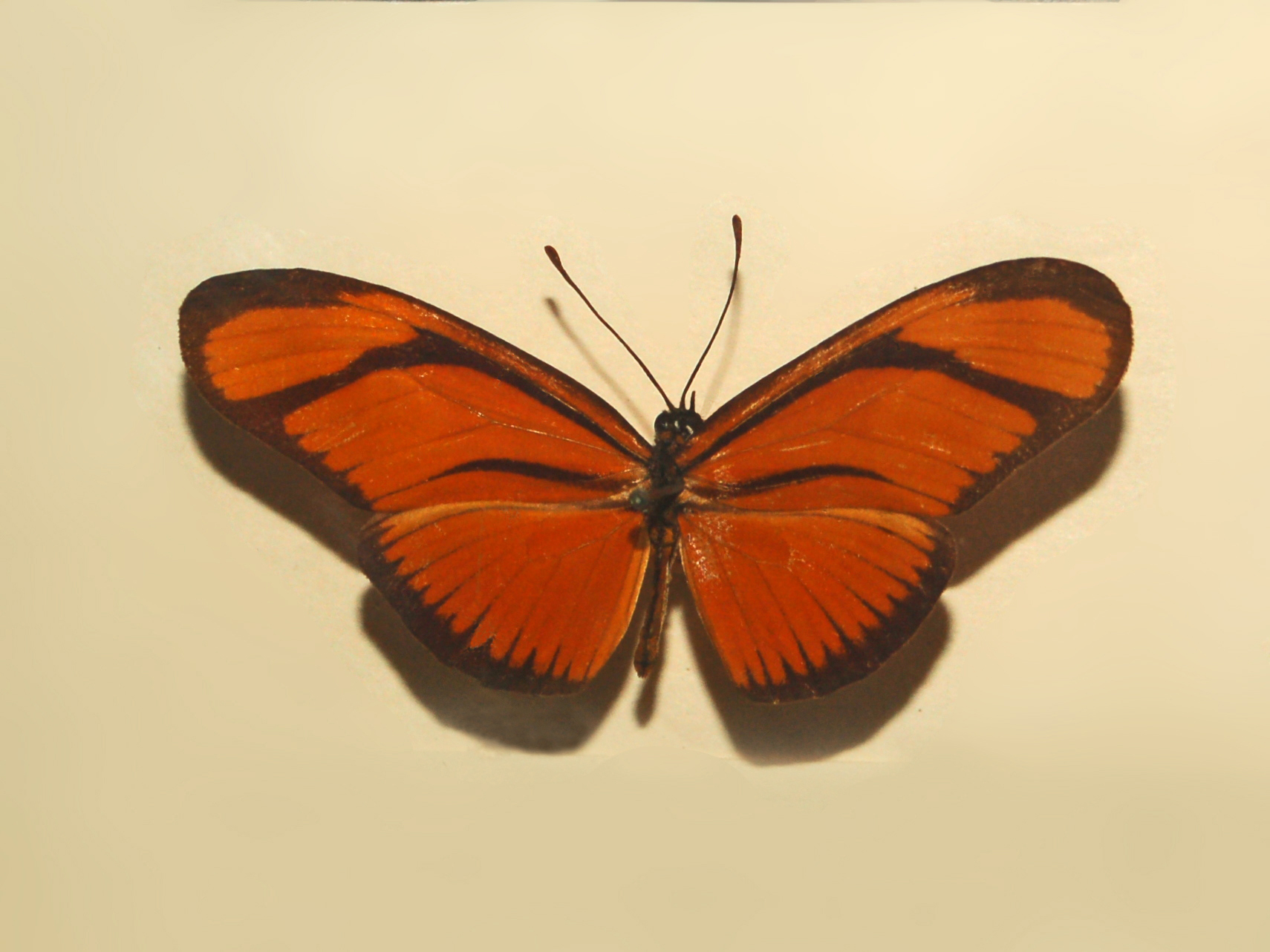 Eueides aliphera from Brazil. Mounted specimen